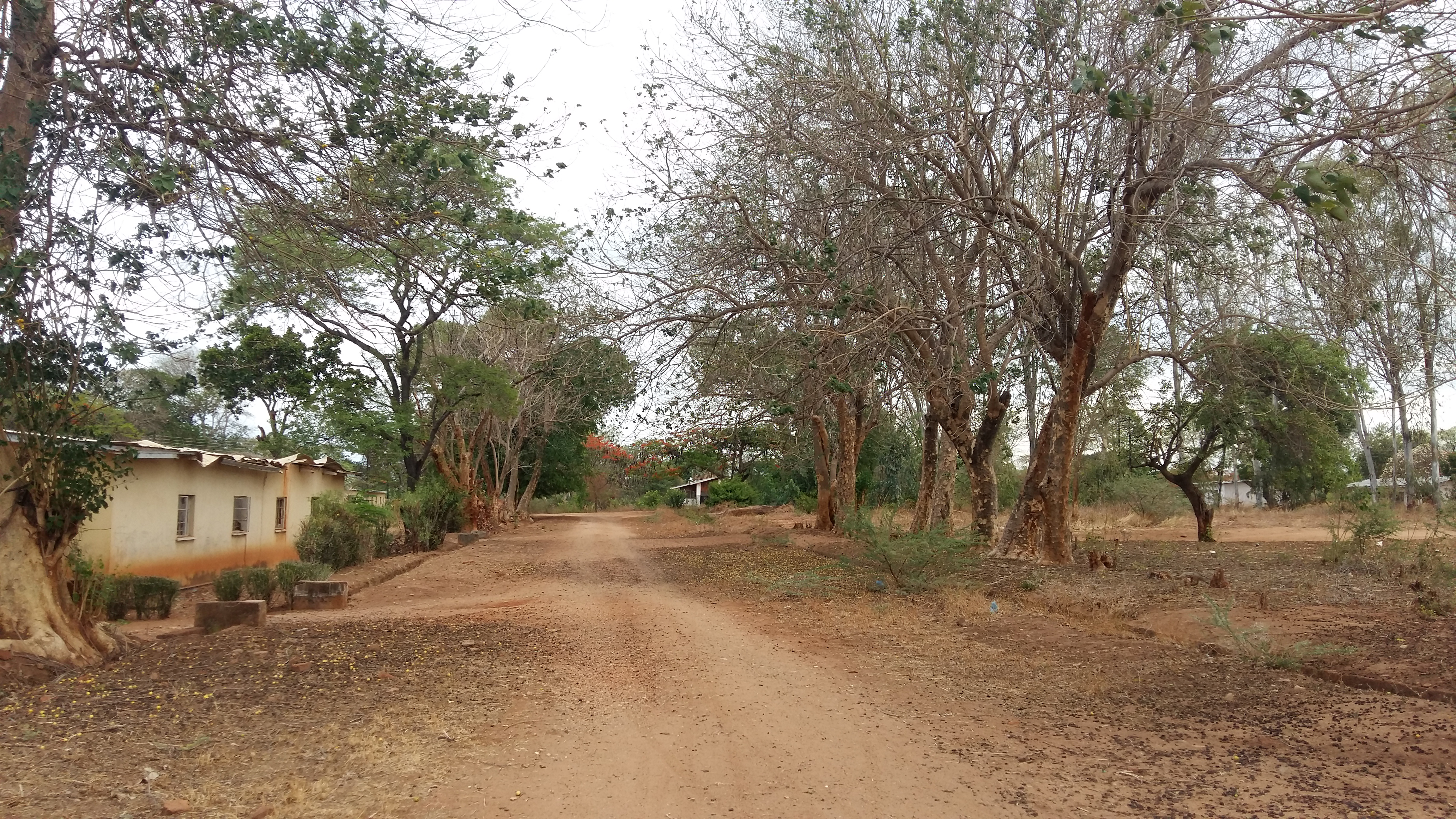 This photos was shot in karonga, a little known district in Malawi but one with beauty and peace. This is an image with the theme "Play" from: Malawi